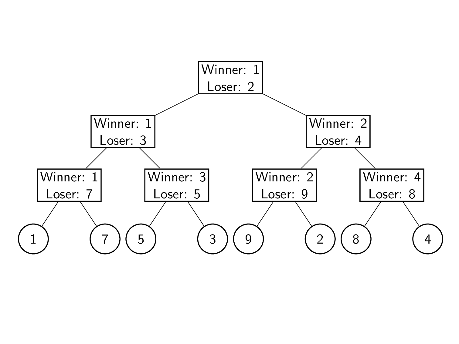 Example of a tournament tree. Tournament trees (more specifically loser trees) can be used for speeding up k-way merging. This example uses a min tournament tree. Therefore, the smaller element is the winner and gets promoted to the top.